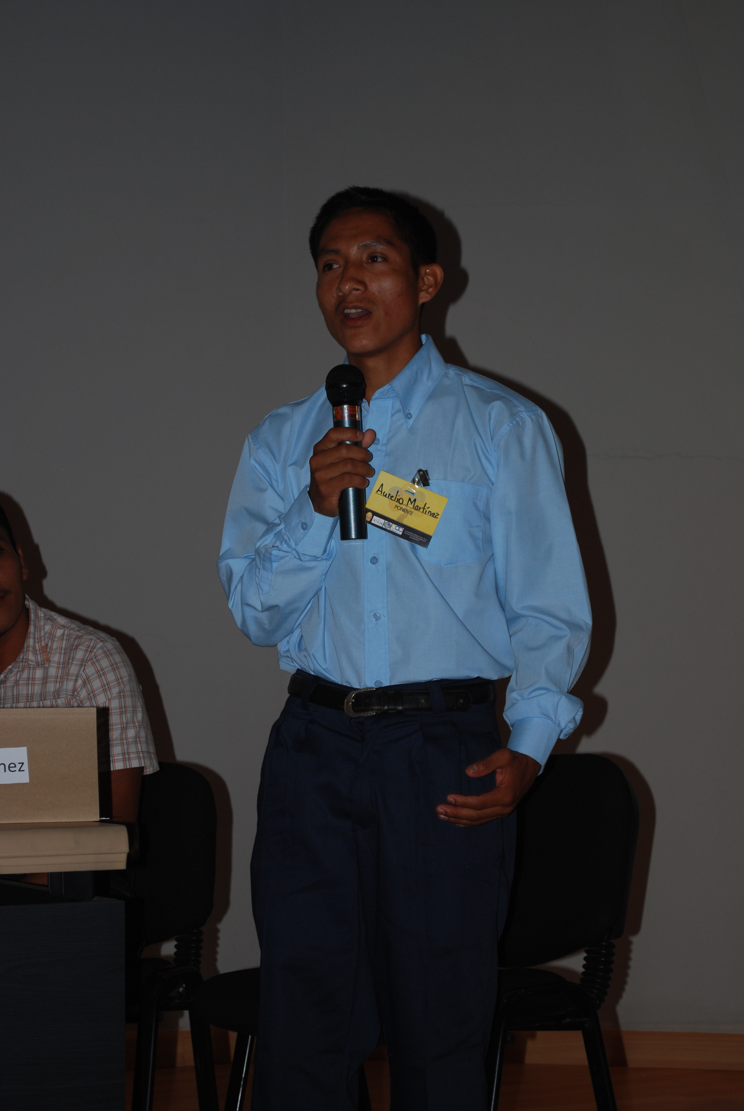 Aurelio Martinez representing the Tolupan people at a forum of the ACALing conference at the Universidad Nacional Autónoma de Honduras